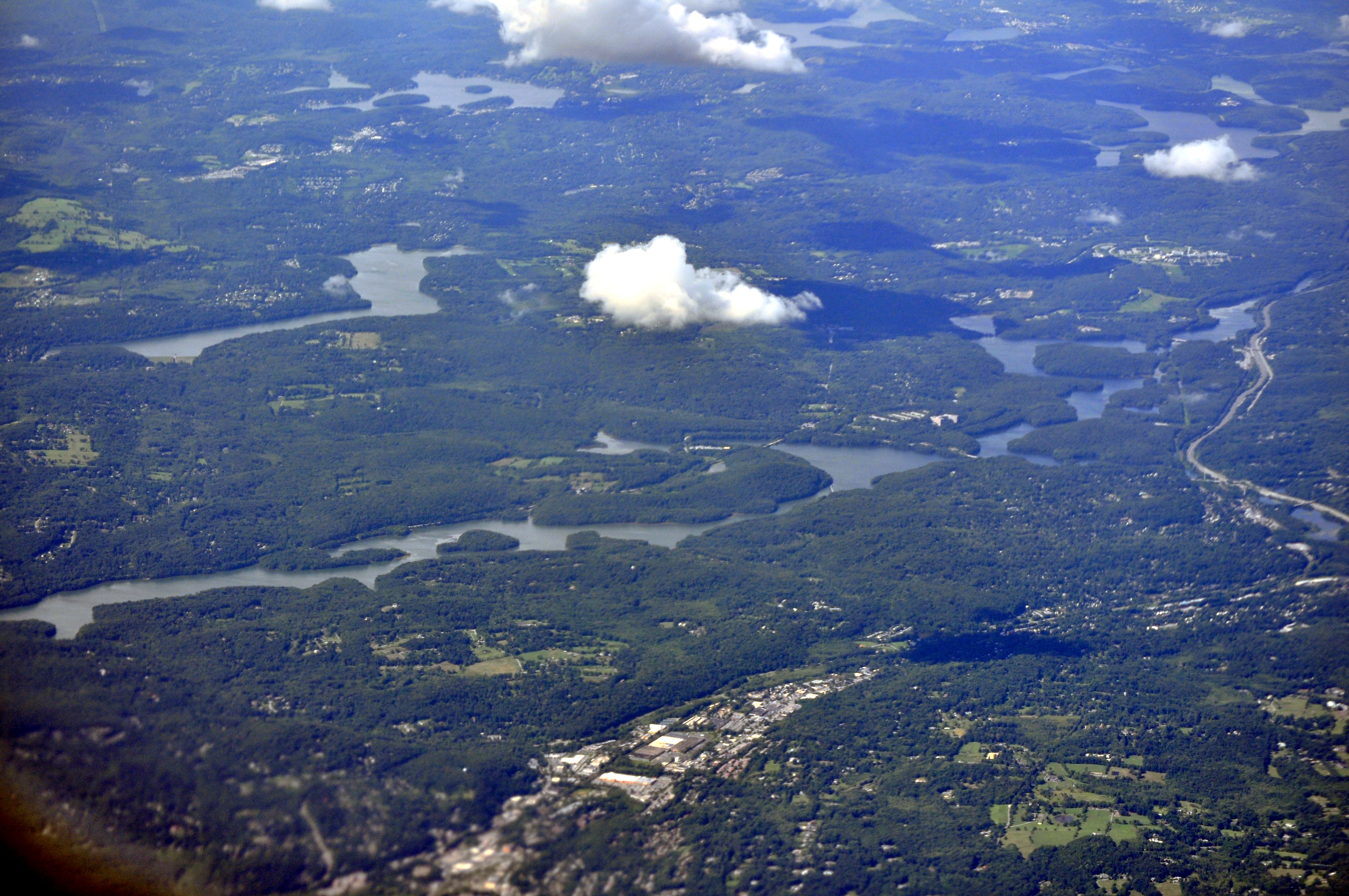 Aerial view of Muscoot Reservoir, Westchester County, New York.